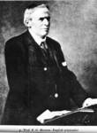 Edward Granville Browne